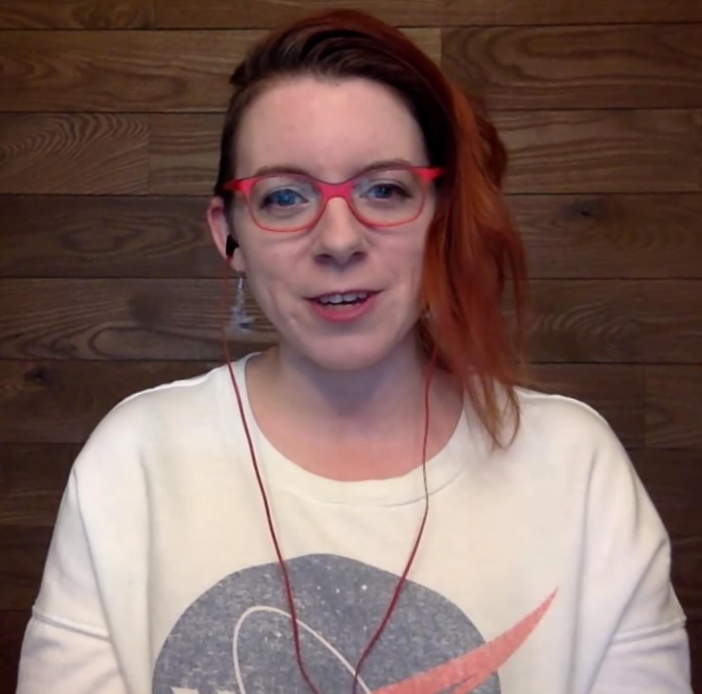 This week Dr Tanya Harrison joins us to talk about the science of Mars and her experiences working on various Mars missions such as Opportunity, Curiosity, Mars Reconnaissance Orbiter and the upcoming Mars 2020 rover. We also talk about how Arizona State University is promoting collaboration between industry and academia through their NewSpace Initiative. If you would like to continue the conversation we have a few great ways to do that: - Create a new post on our community forum at - Head over to our real-time Discord channel here